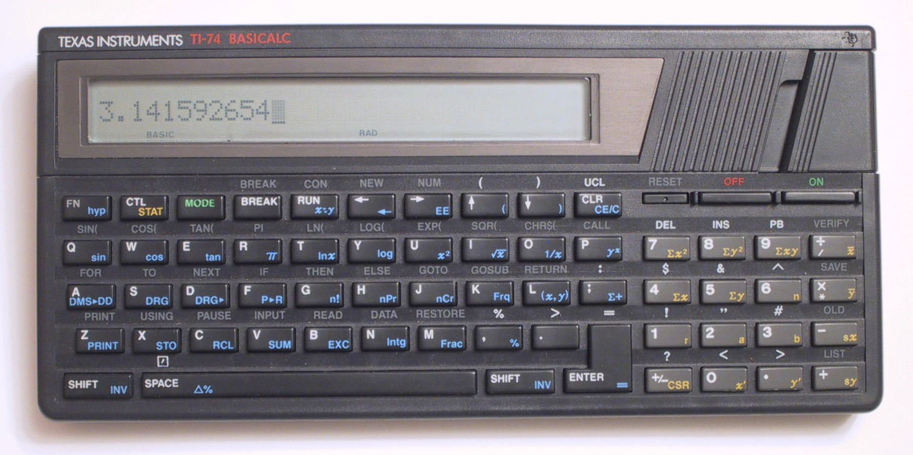 Pocket calculator Texas Instruments TI-74 programmable in the BASIC language.